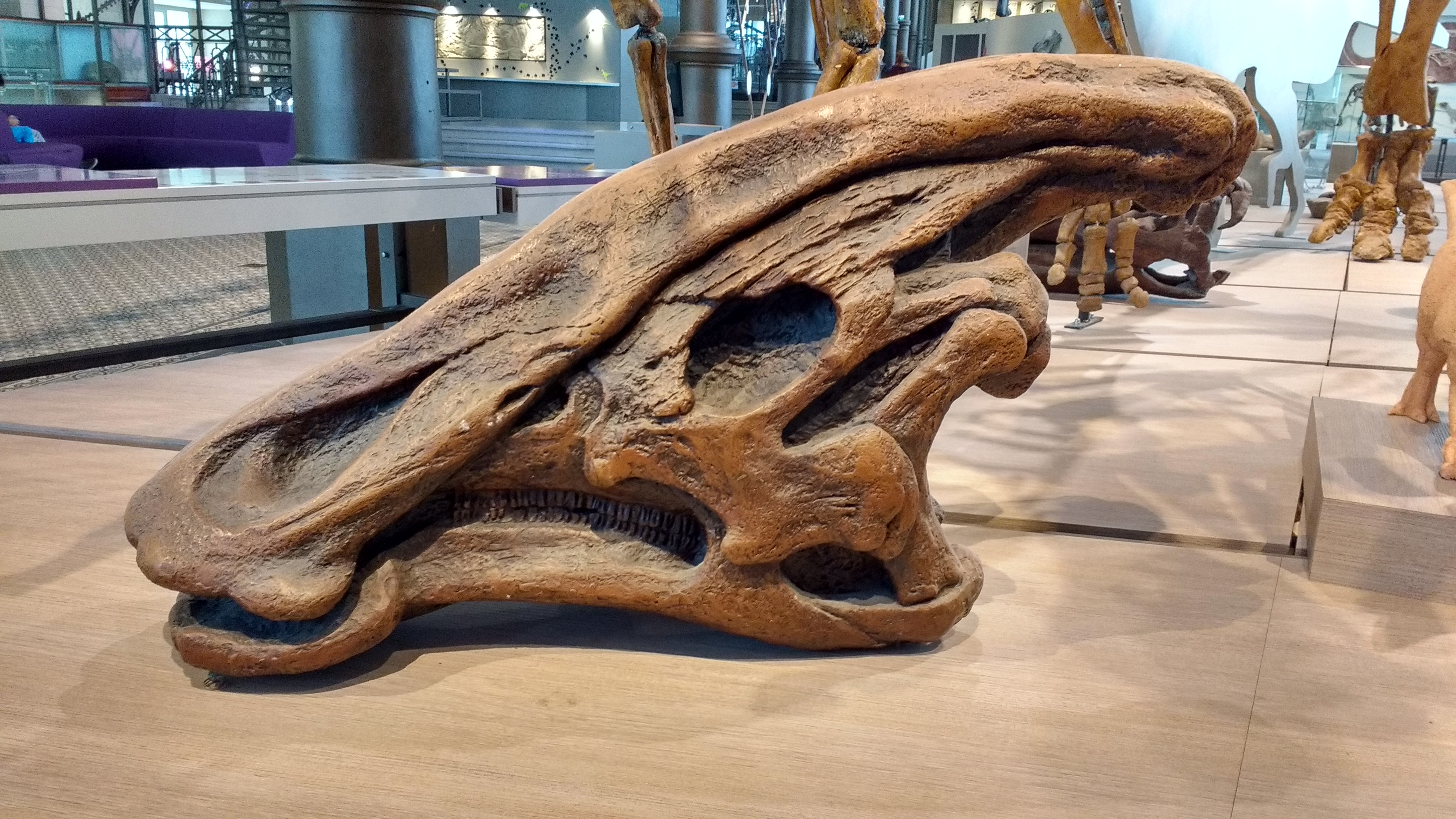 Charonosaurus jiayinensis in Royal Belgian Institute of Natural Sciences, in Brussels (Belgium).